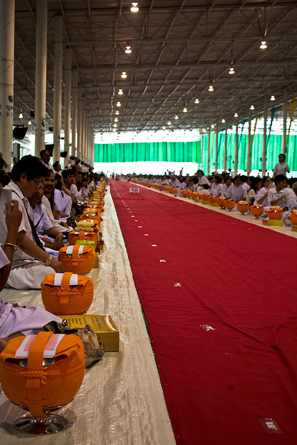 A ceremony held on the 29th of August 2009 for the ordination of 12,000 new monks at Wat Phra Dhammakaya emphasizes the scale of the temple.